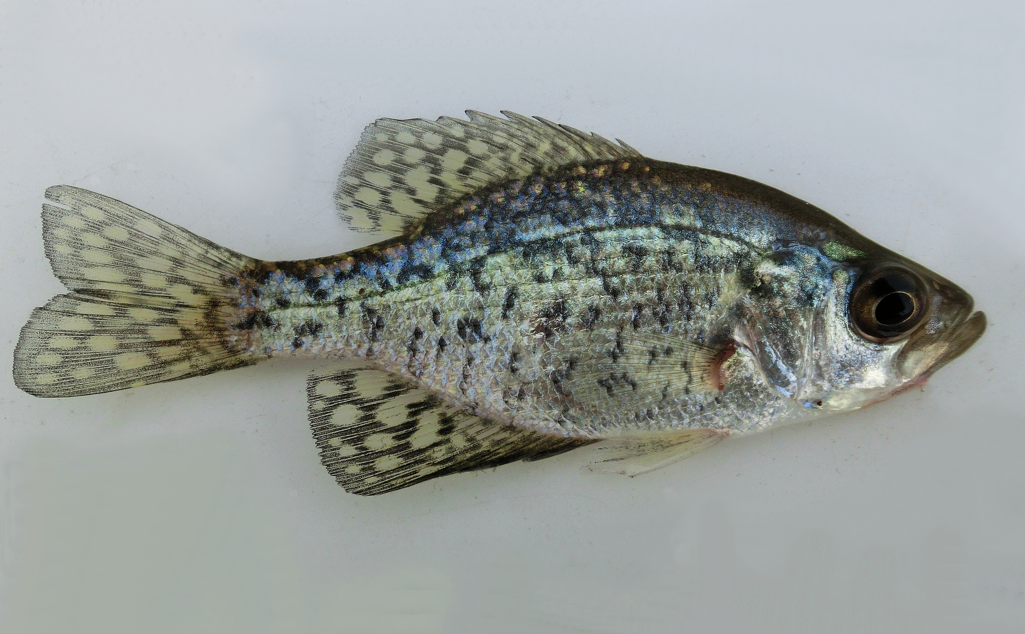 Black crappie (Pomoxis nigromaculatus) about 10 centimetres (3.9 in) long from Salt Slough, San Luis National Wildlife Refuge Complex, California; 2012 November.